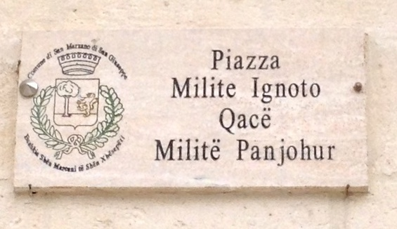 Bilingual place plate in San Marzano di San Giuseppe in Italian and in Arbëreshë (below)